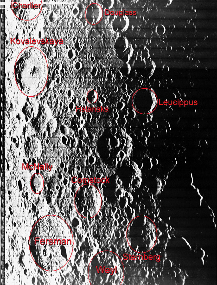 Lunar orbiter - IV Photo Number V-024-H2 Sun Angle: 82.3 ° Spacecraft Altitude: 5008.7 km Medium Res. Photo Center Coordinates: 26.54°N/120.17°W Feature Latitude/Longitude Feature Size Charlier 36.6°N/131.5°W 99 km Comstock 21.8°N/121.5°W 72 km Douglass 35.9°N/122.4°W 49 km Fersman 18.7°N/126.0°W 151 km Hatanaka 29.7°N/121.5°W 26 km Kovalevskaya 30.8°N/129.6°W 115 km Leucippus 29.1°N/116.0°W 56 km McNally 22.6°N/127.2°W 47 km Sternberg 19.5°N/116.3°W 70 km Weyl 17.5°N/120.2°W 108 km